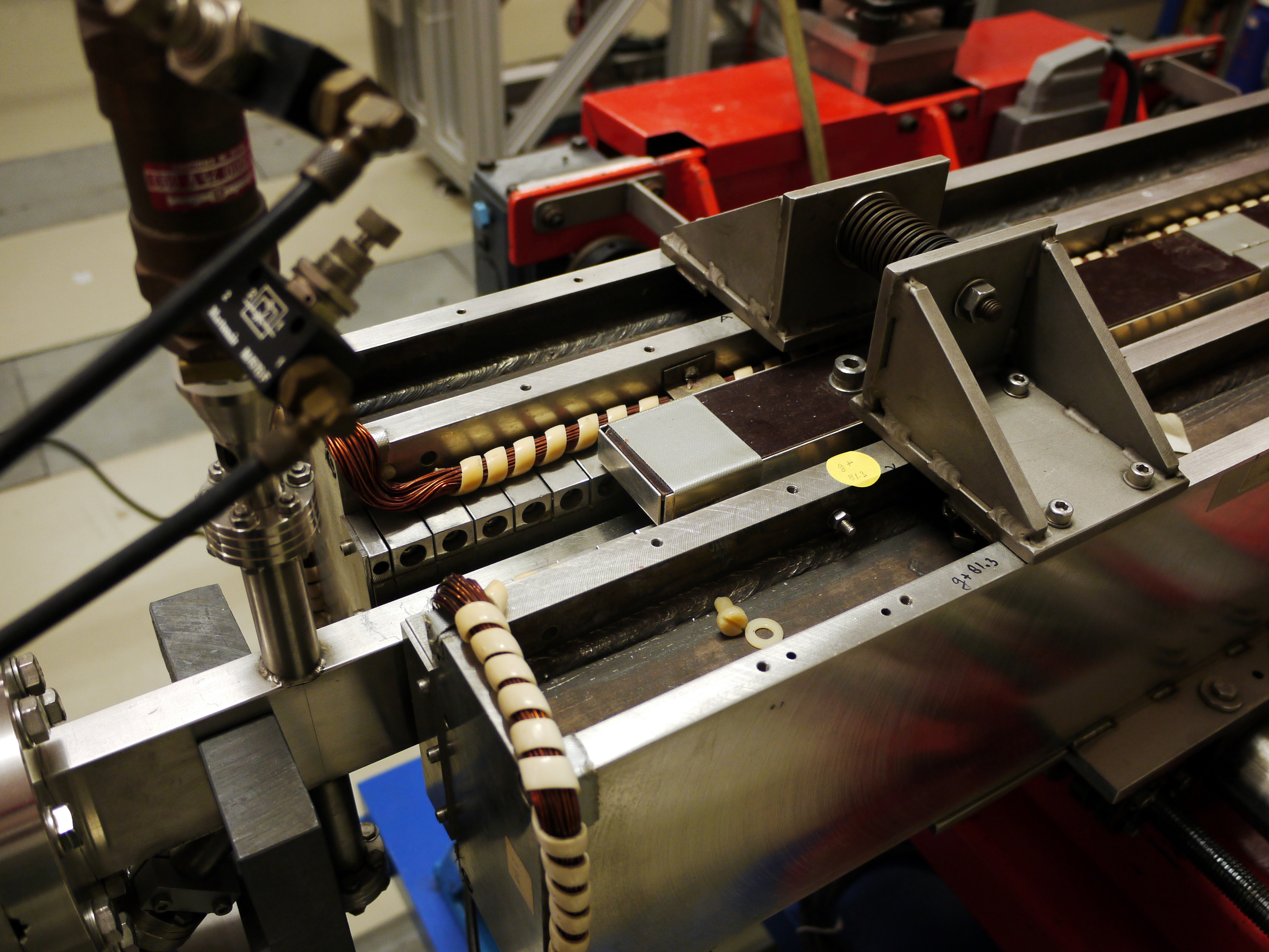 Undulator of FELIX, Free Electron Laser for Intrared eXperiments, at The FOM Institute for Plasma Physics Rijnhuizen, Nieuwegein.